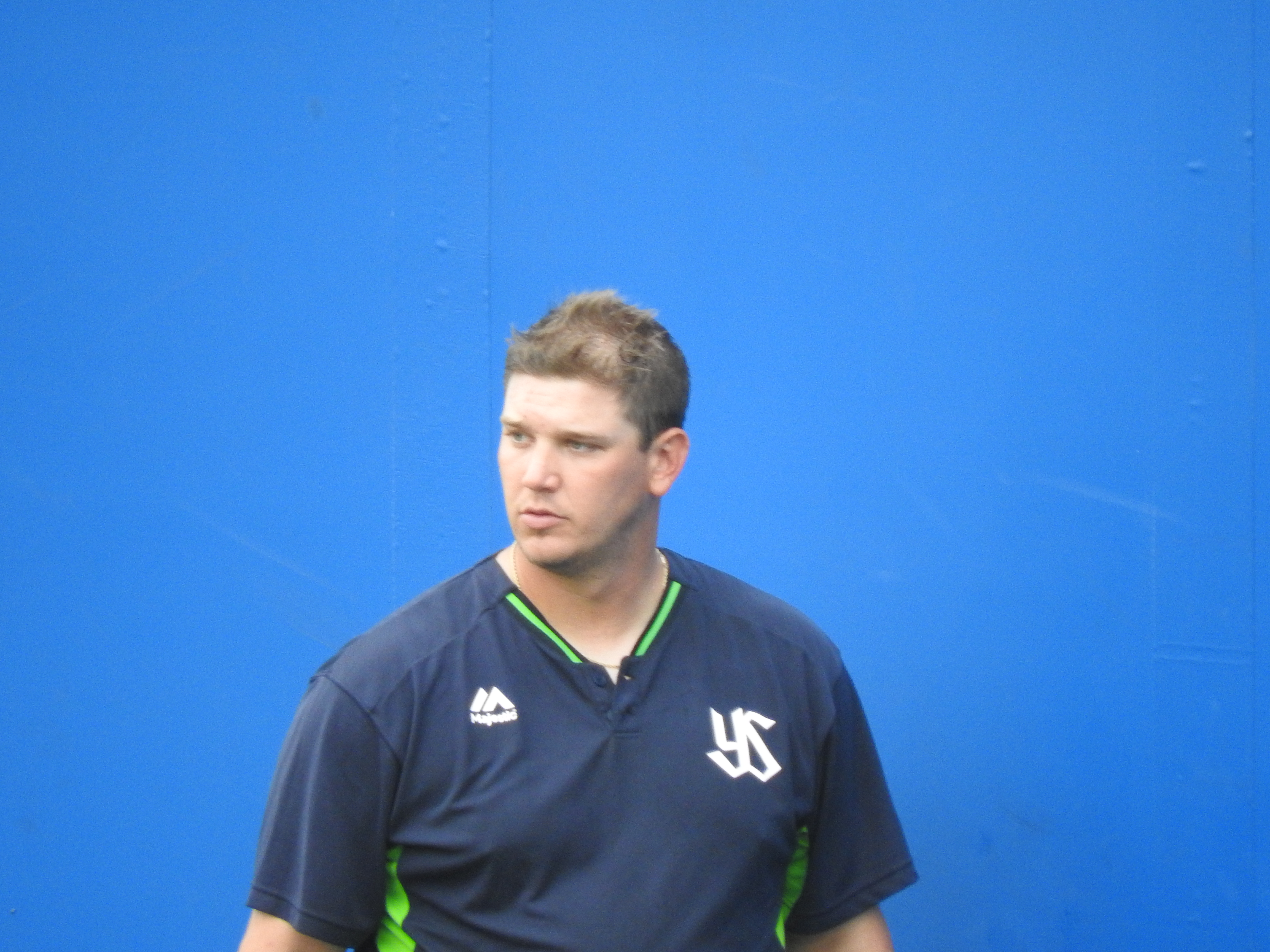 baseball player